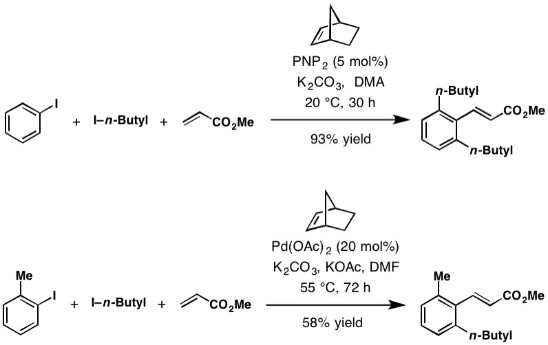 Original di- and mono-alkylation of aryliodide using the Catellani reaction